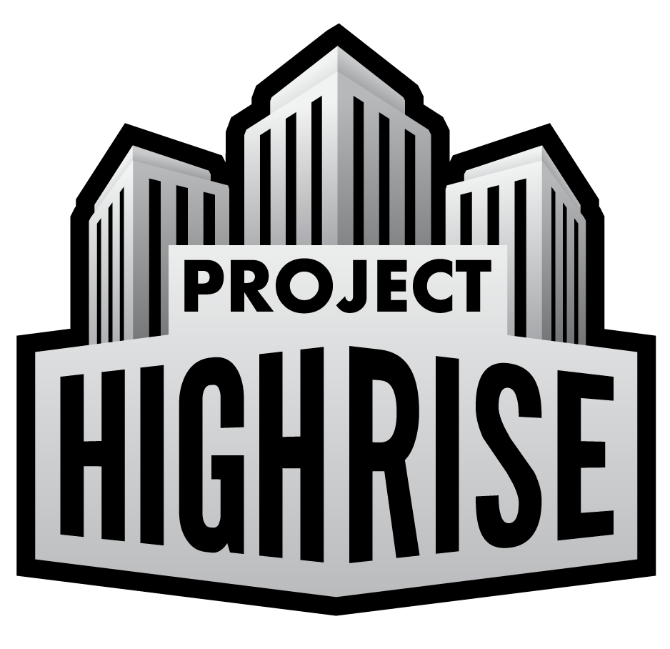 The Project Highrise logo for the video game of the name